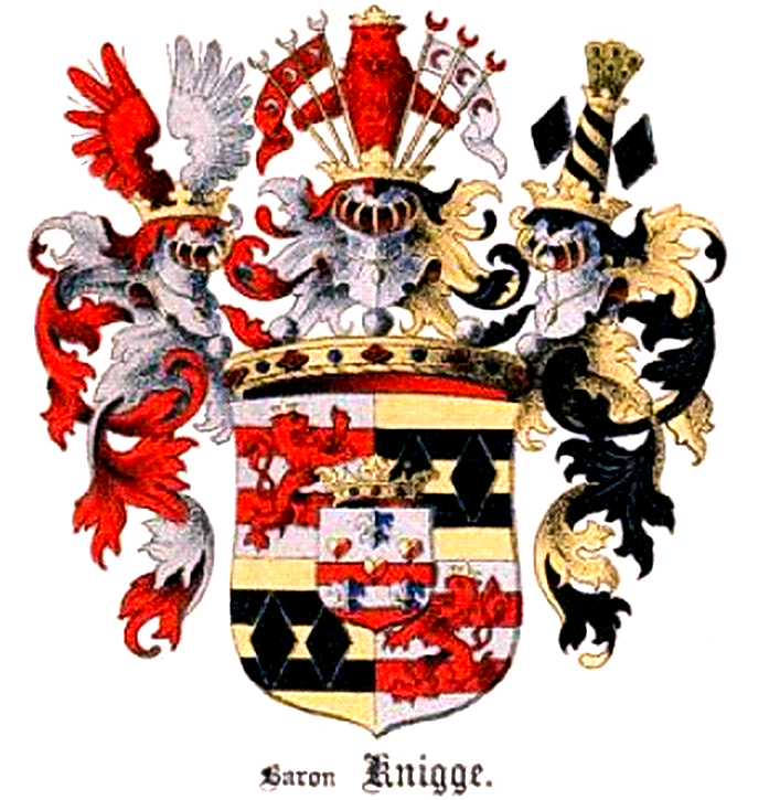 Coat of arms of Baron Knigge family